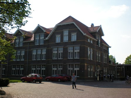 Utrecht School of Economics (University College Utrecht Campus)